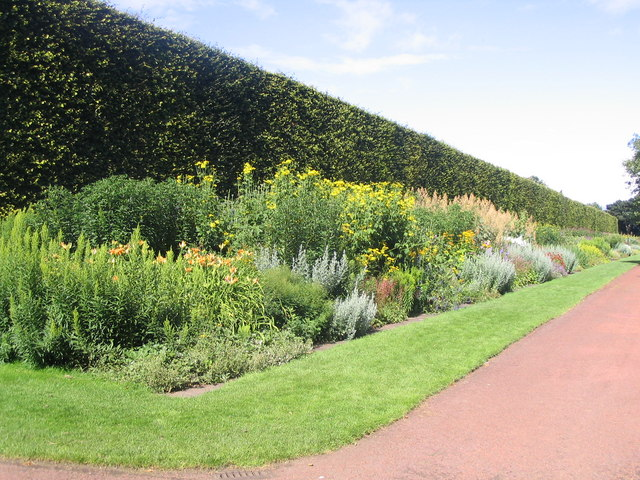 Royal Botanic Garden Edinburgh The herbaceous border in the Garden, backed by the impressive and immaculate beech hedge, which is 8m high and over 100 years old